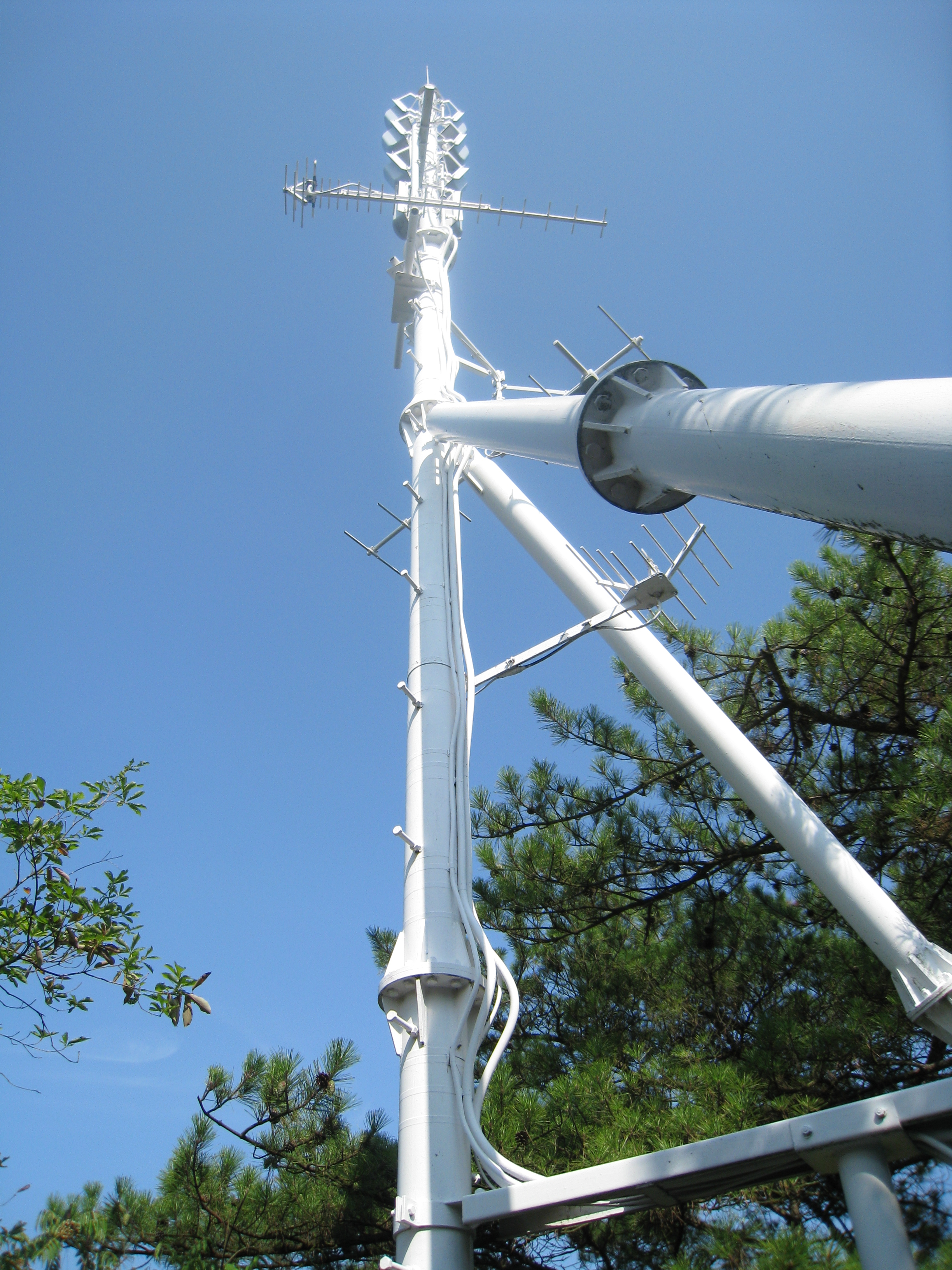 Mast of Ritsurin-kita(Takamatsu-ritsurin) relay station.